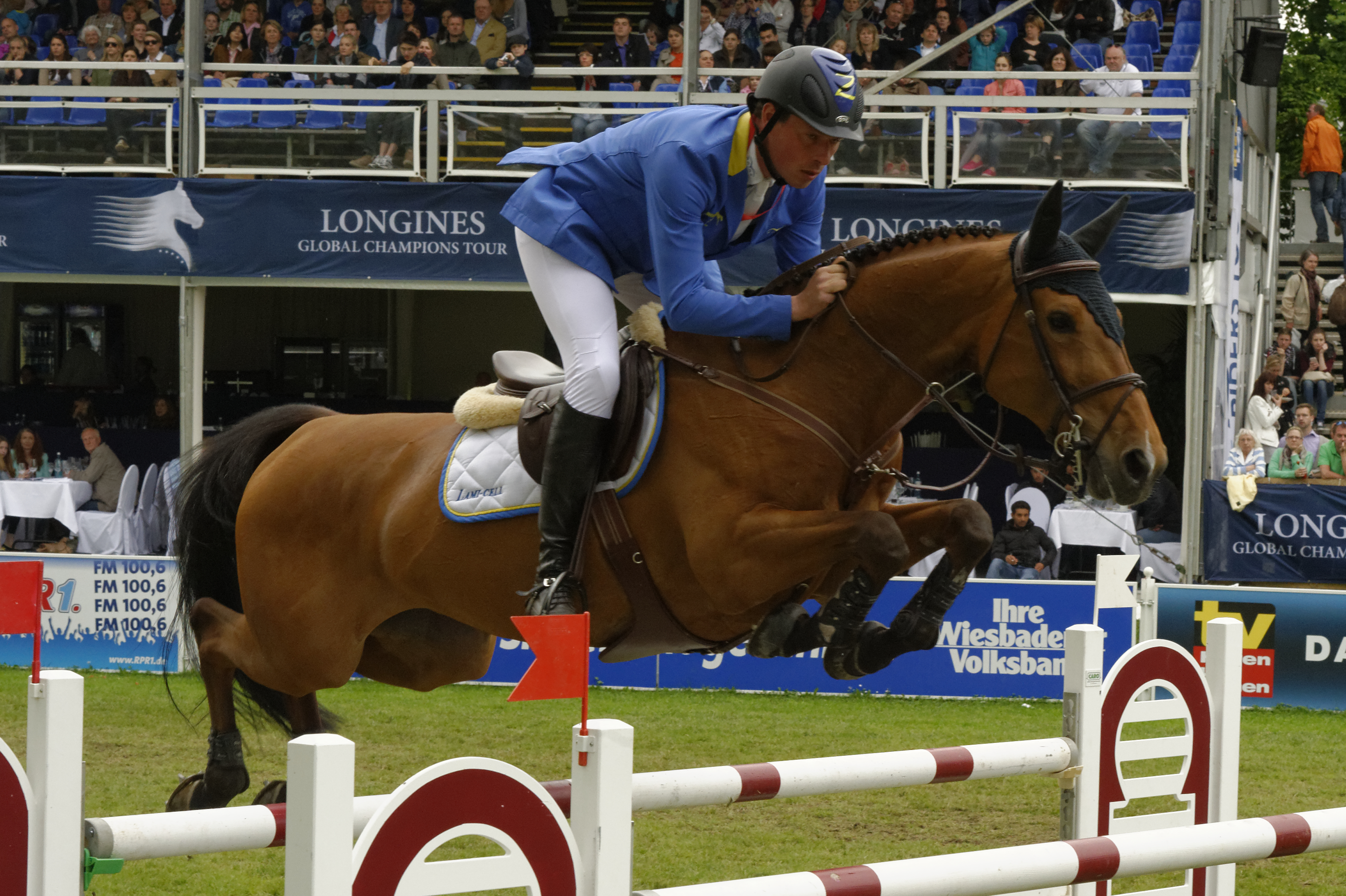 Internationales Pfingstturnier Wiesbaden 2013 The making of this document was supported by the Community-Budget of Wikimedia Germany.